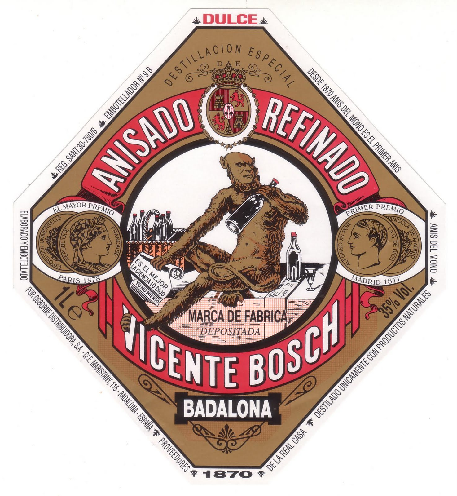 An Anise liquor label, with a monkey having the face of Charles Darwin